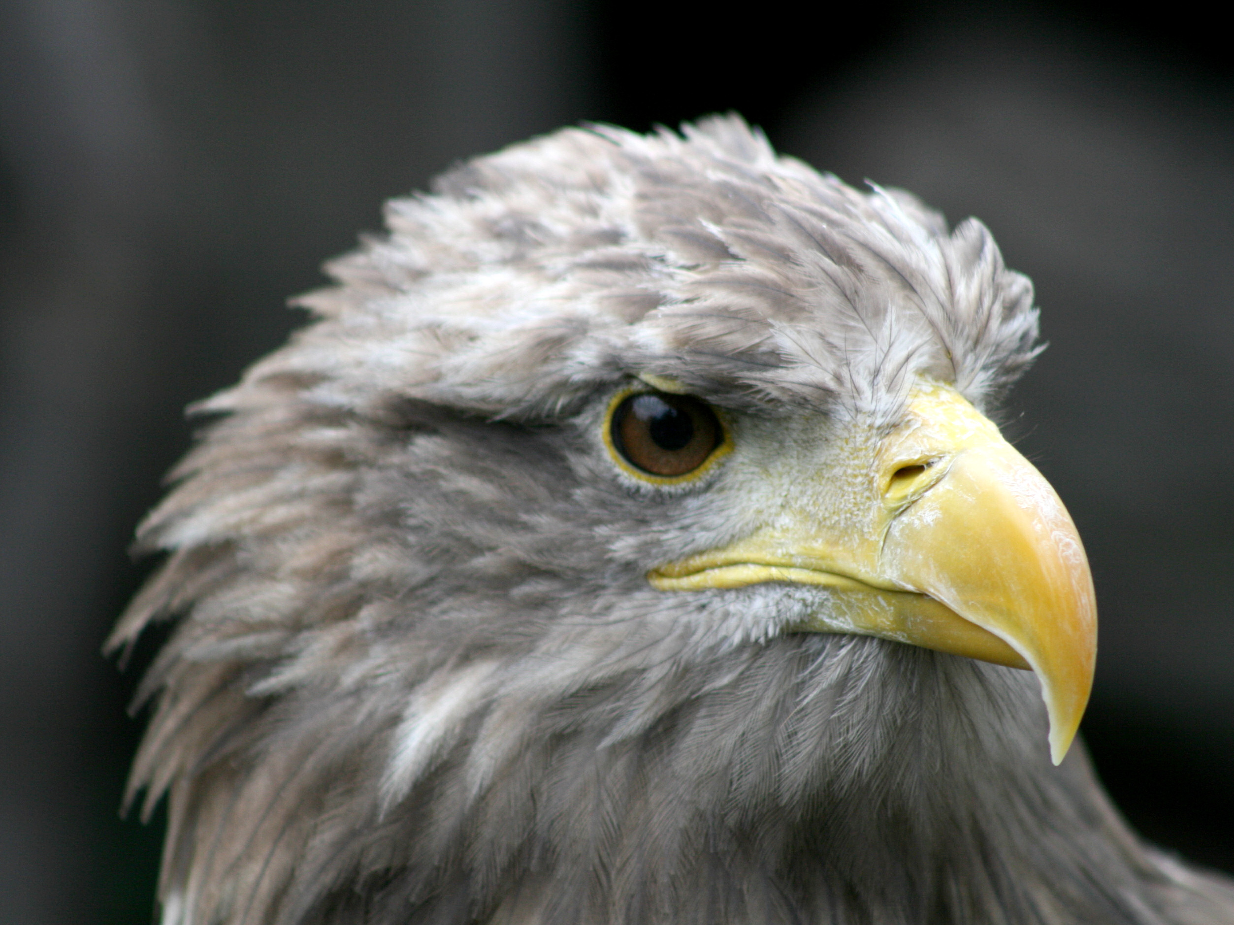 White-tailed Eagle. Haliaeetus albicilla. Brno, Czech Republic. Česky: Hlava orla mořského (Haliaeetus albicilla) na hradě Veveří. Česká republika.